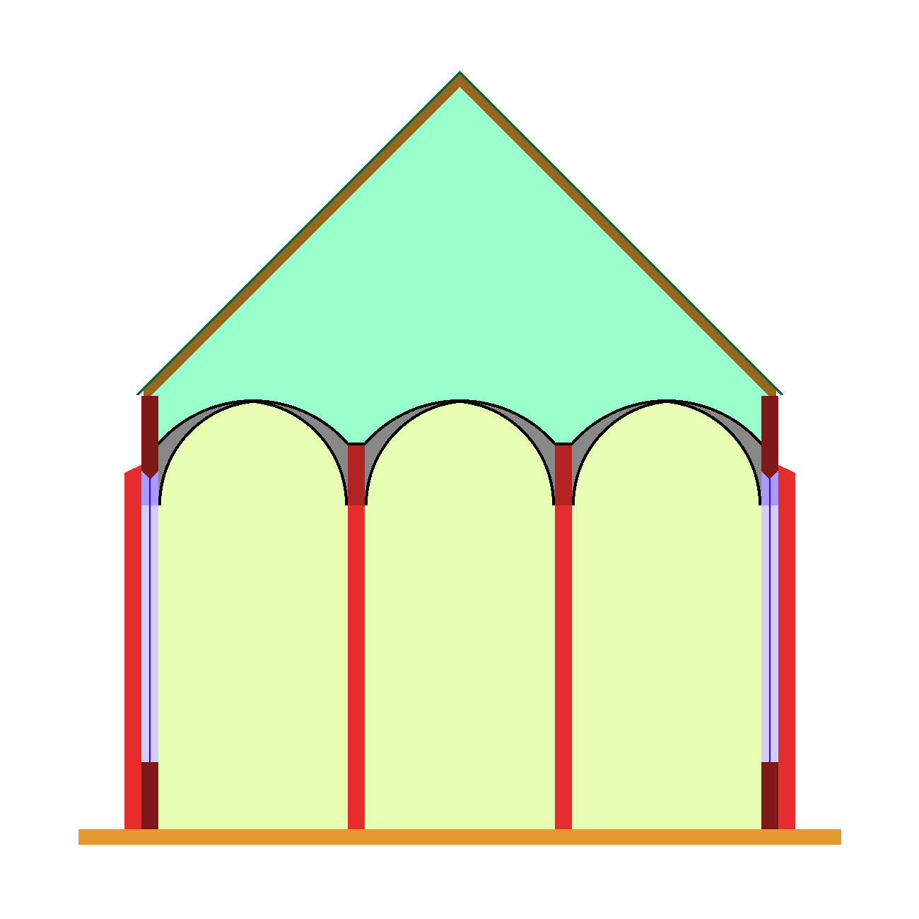 Scheme of a hall church with equal heights and widths og central bave and lateral aisles